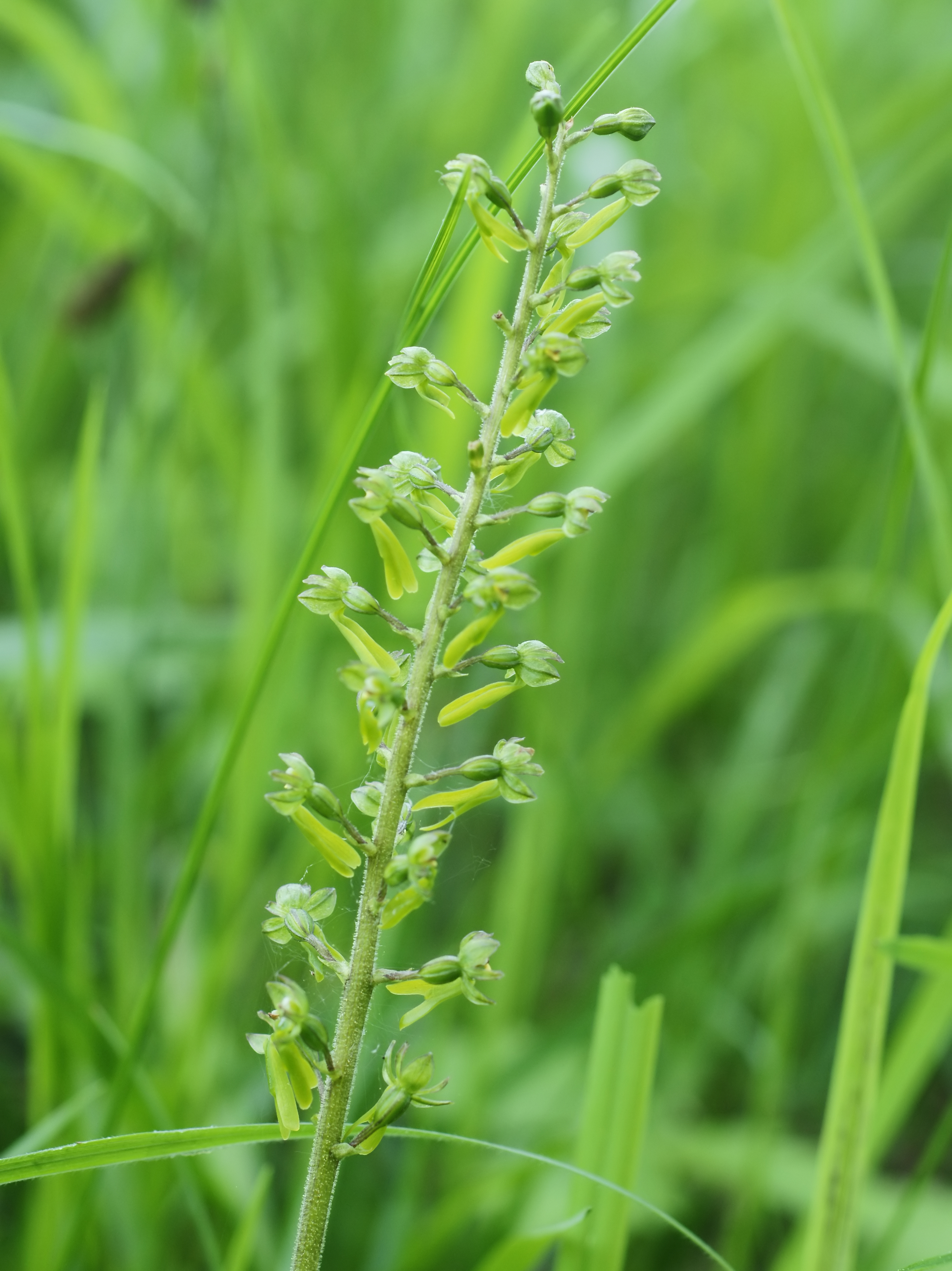 Fragrant orchid.